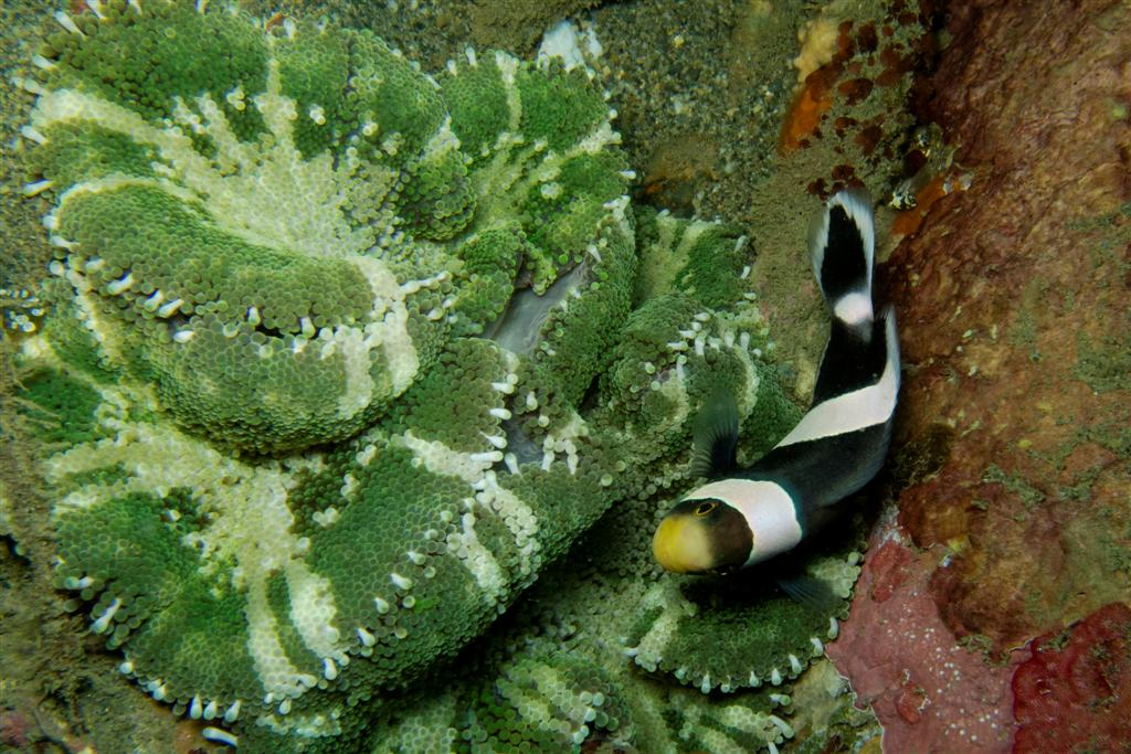 Clown Fish Anemone